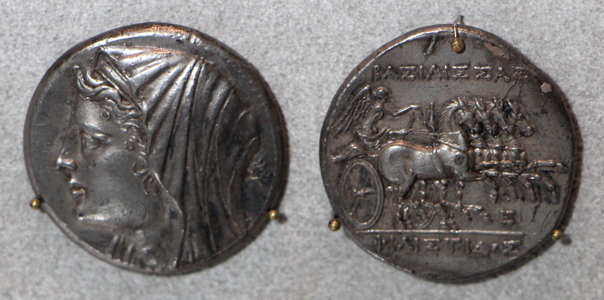 Ancient Greek coins in the Altes Museum Berlin